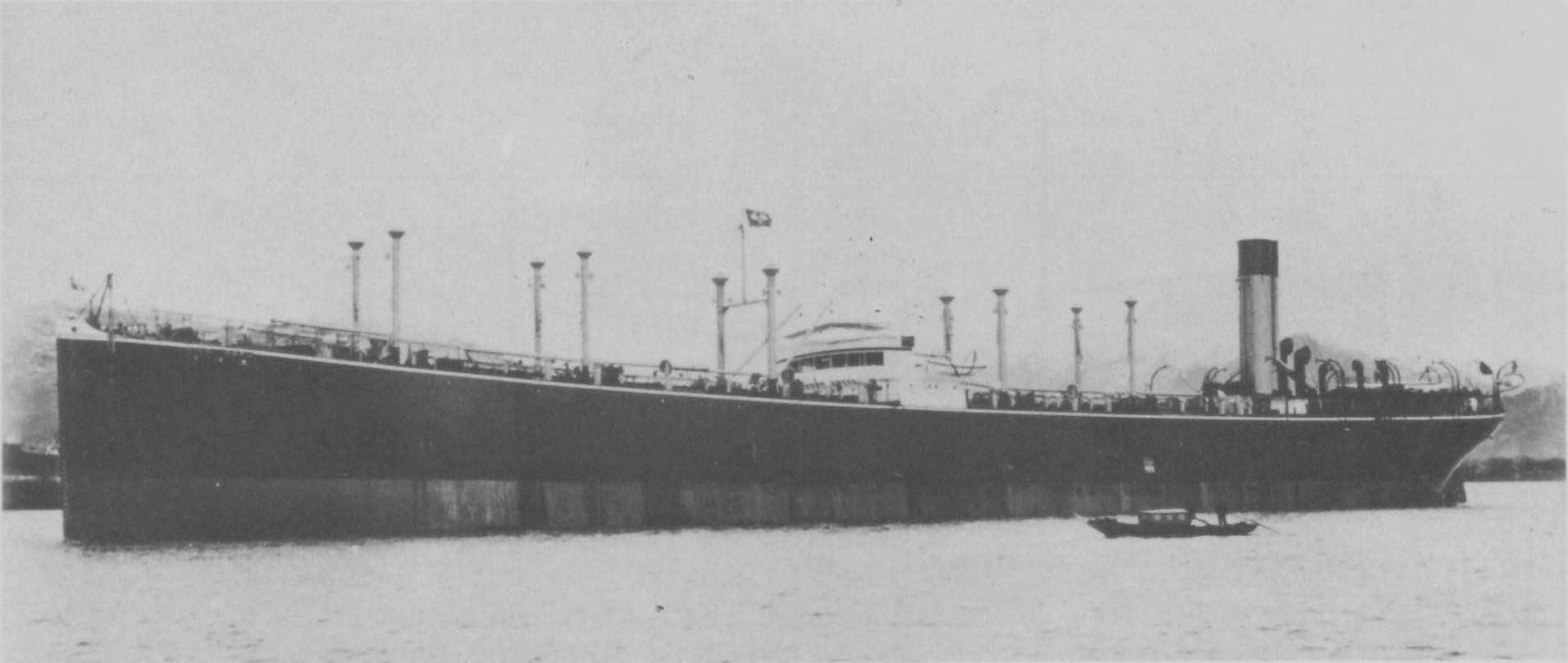 T.K.K. Line (Toyo Kisen) Oiler and Passenger "Kiyo Maru". For Japan's first open ocean tanker.